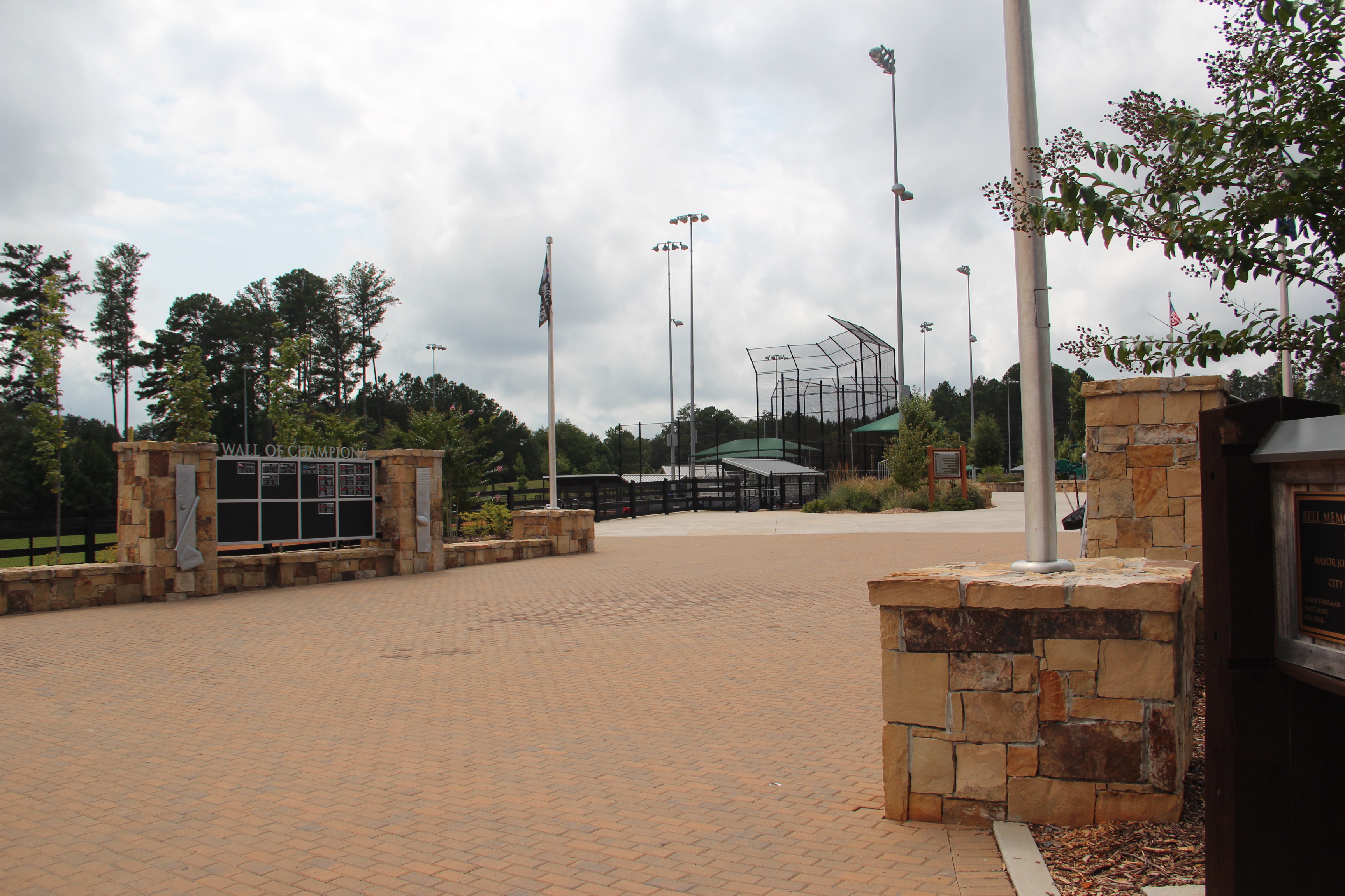 Bell Memorial Park, Hopewell, Milton, GA